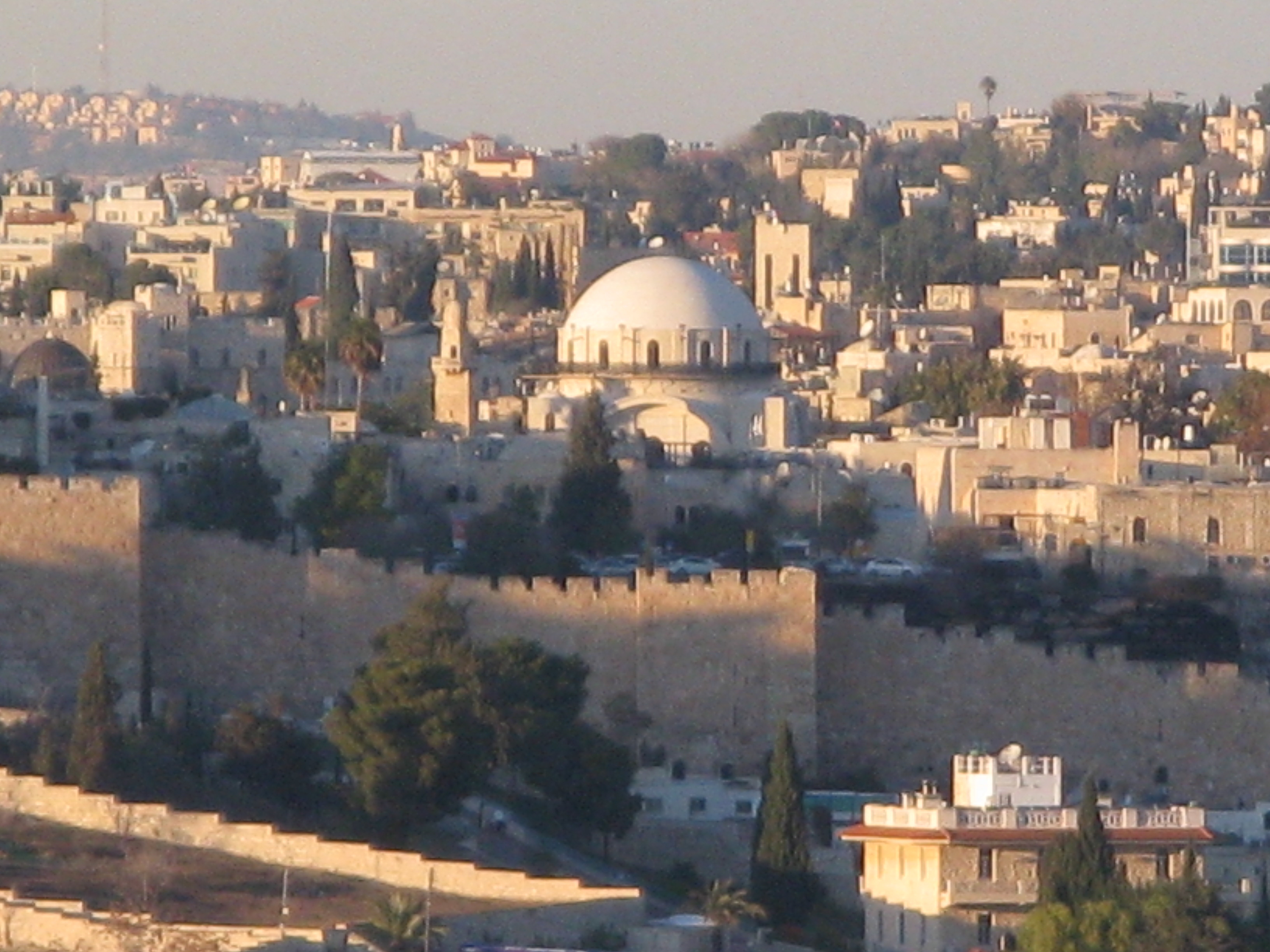 Hurva Synagogue, Exterior, Old City Walls. Jerusalem.